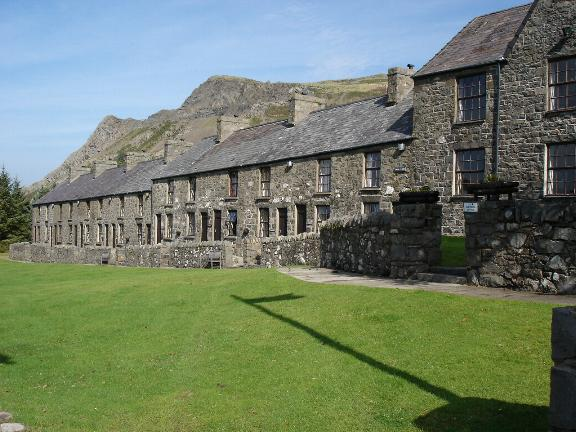 Porth y Nant cottages. Restored quarry workers cottages at Porth y Nant, the Welsh Language School.